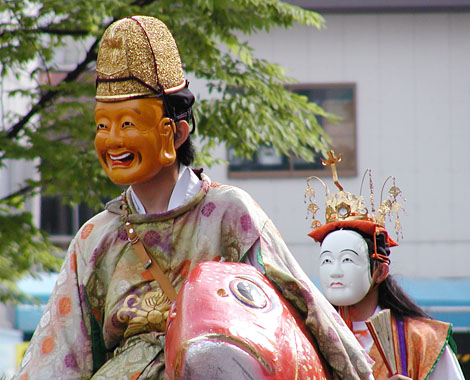 Hakata Matsubayashi festival. Role of Ebisu (conjugal Ebisu), one of Shichi Fukujin (Seven Lucky Gods).